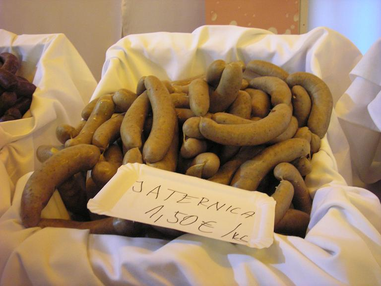 Jaternice, Slovak liverwurst